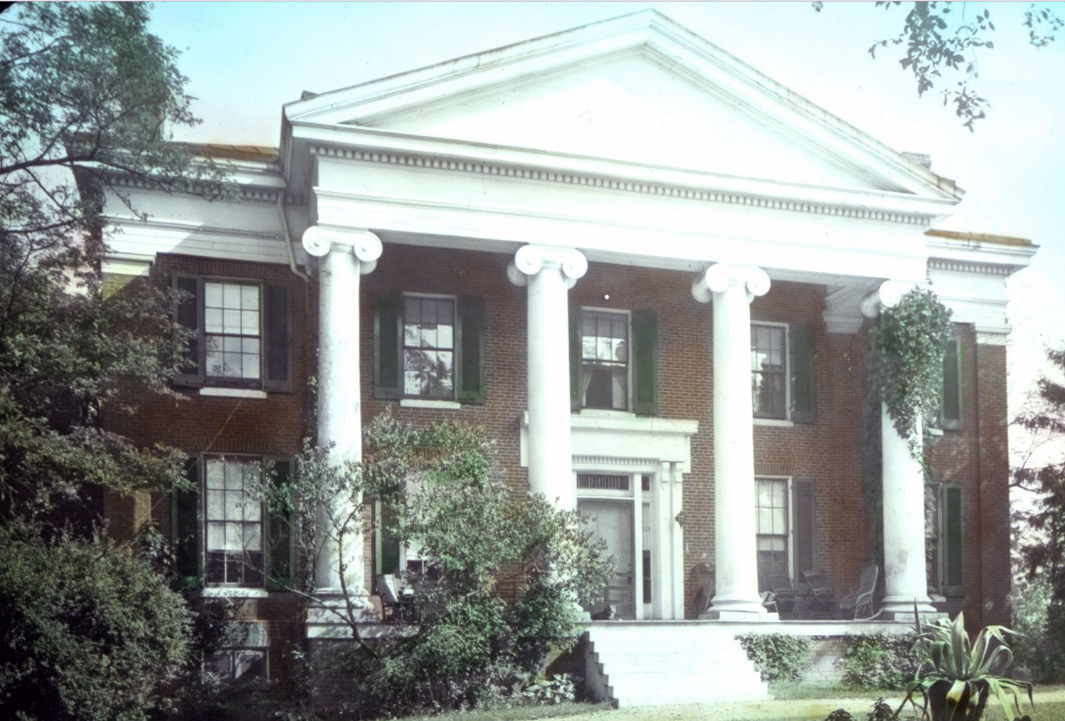 Helm Place, the home of Kentucky Governor John L. Helm